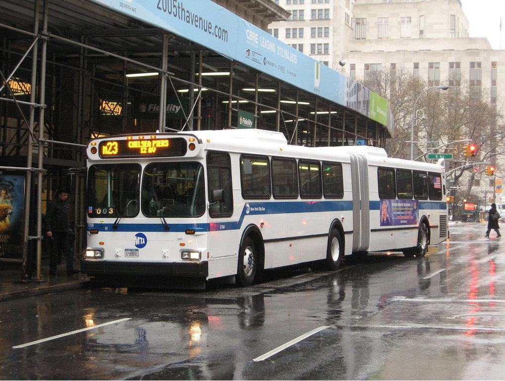 NYC Transit Authority #5760 in the current livery, on the M23 line in New York, New York. Note that the rear is now painted completely white. GIMP 2.4 was used to combine two photos into one.